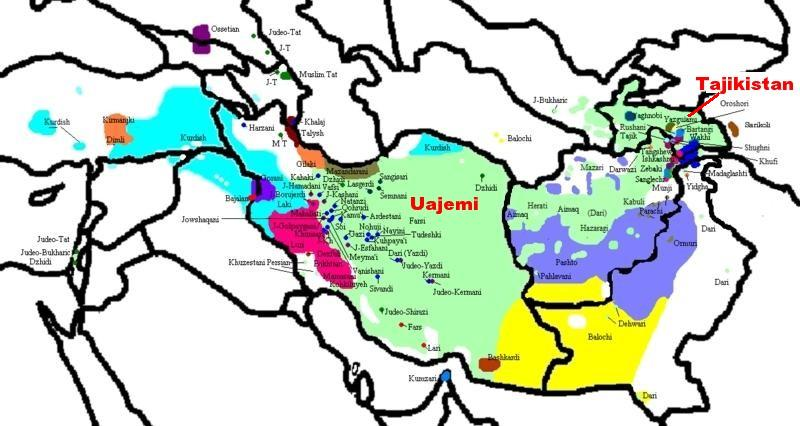 Linguistic map of modern Iranian languages: Farsi (green), Pashto (purple) and Kurdish (turquoise), Lurish (red), Baloch (Yellow), as well as smaller communities of other Iranian languages (English)